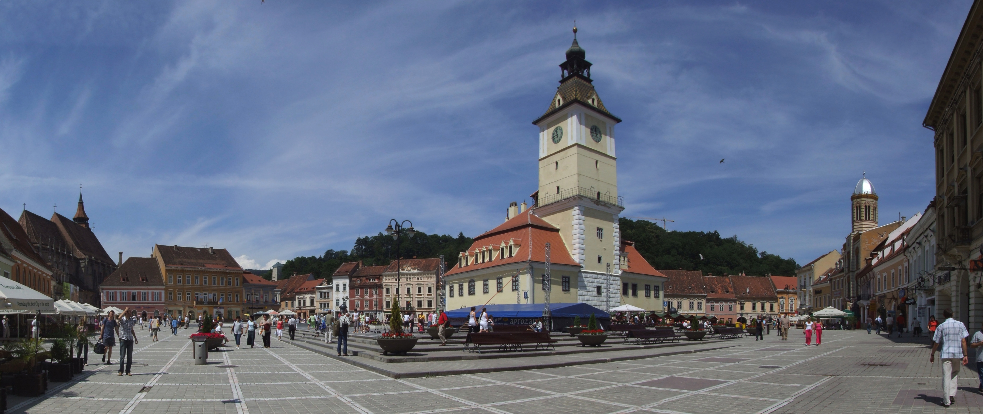 Braşov (Kronstadt, Brassó) - market square (Piaţa Sfatului)